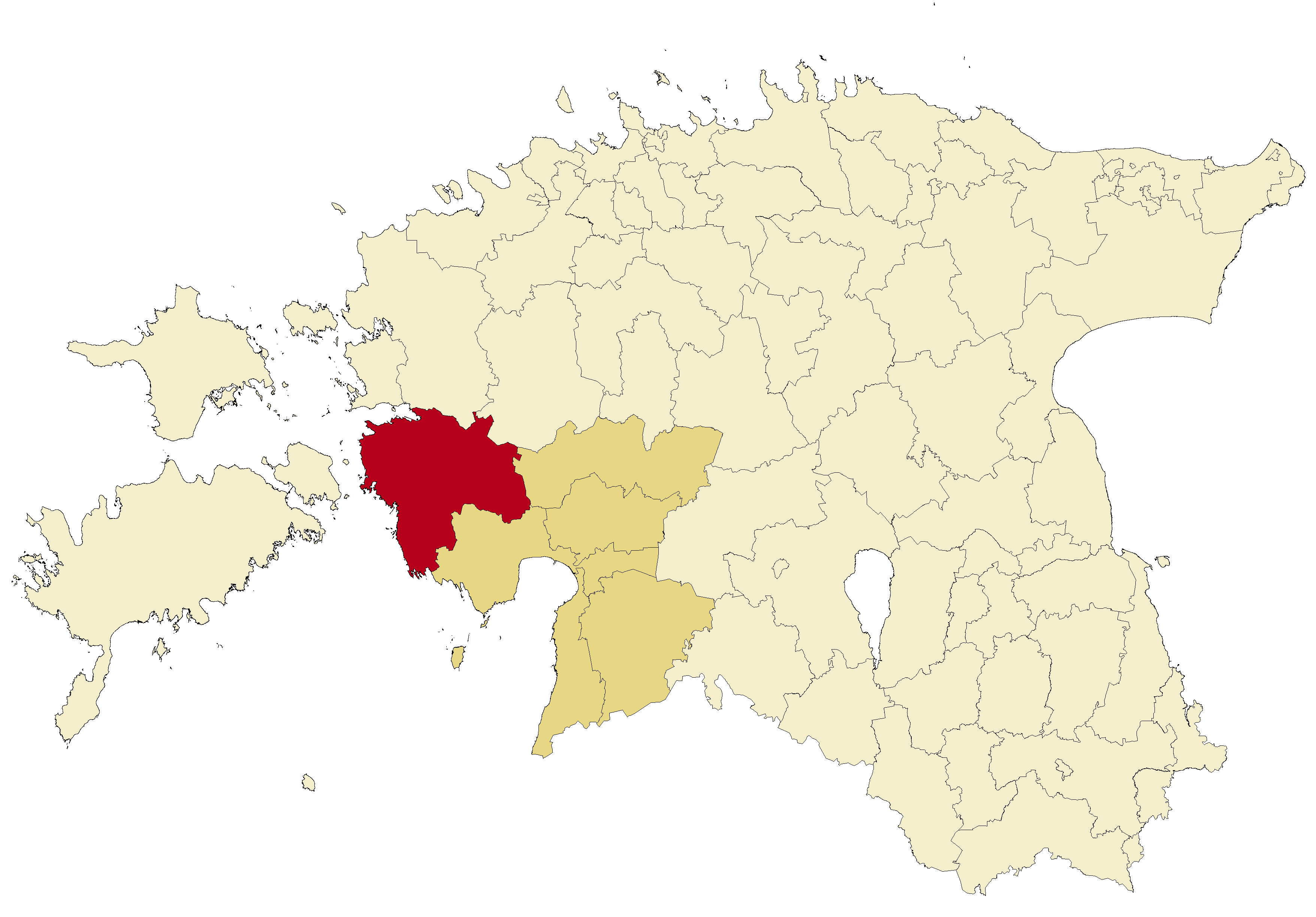 Location of Lääneranna Parish (red) within Pärnu County (dark yellow) after the Administrative Reform of Estonia in 2017.